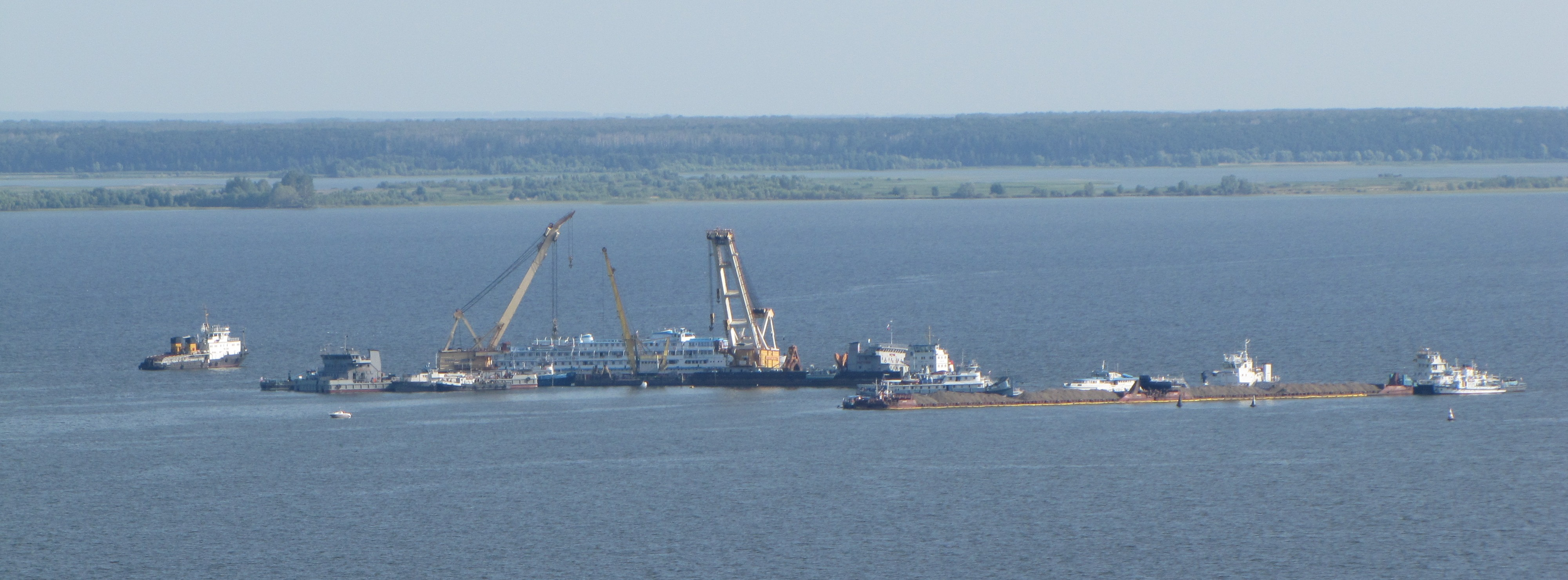 The rescue operation on the place where Bulgaria shipwrecked